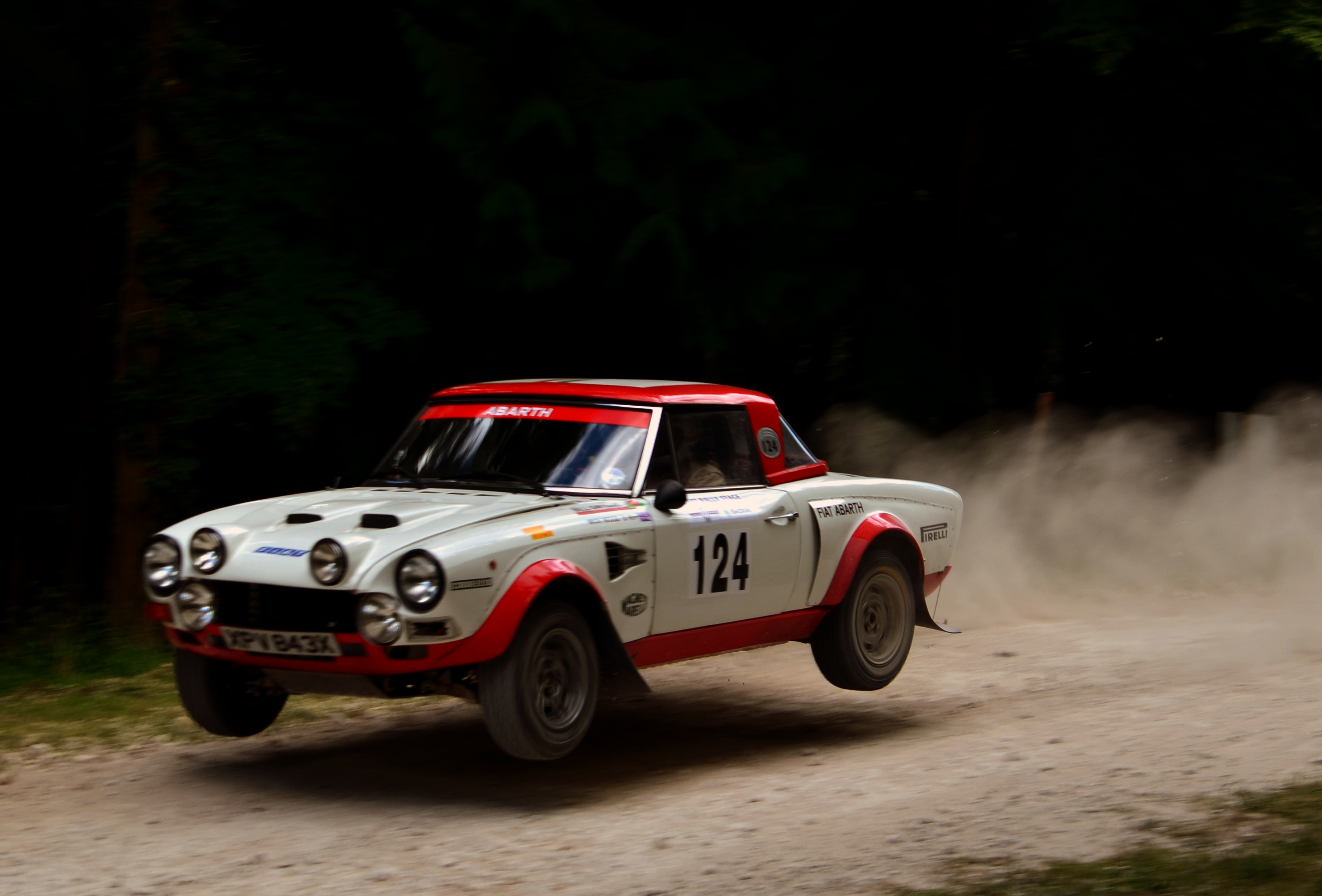 The Fiat 124 Abarth rally car at the 2014 Goodwood Festival of Speed.